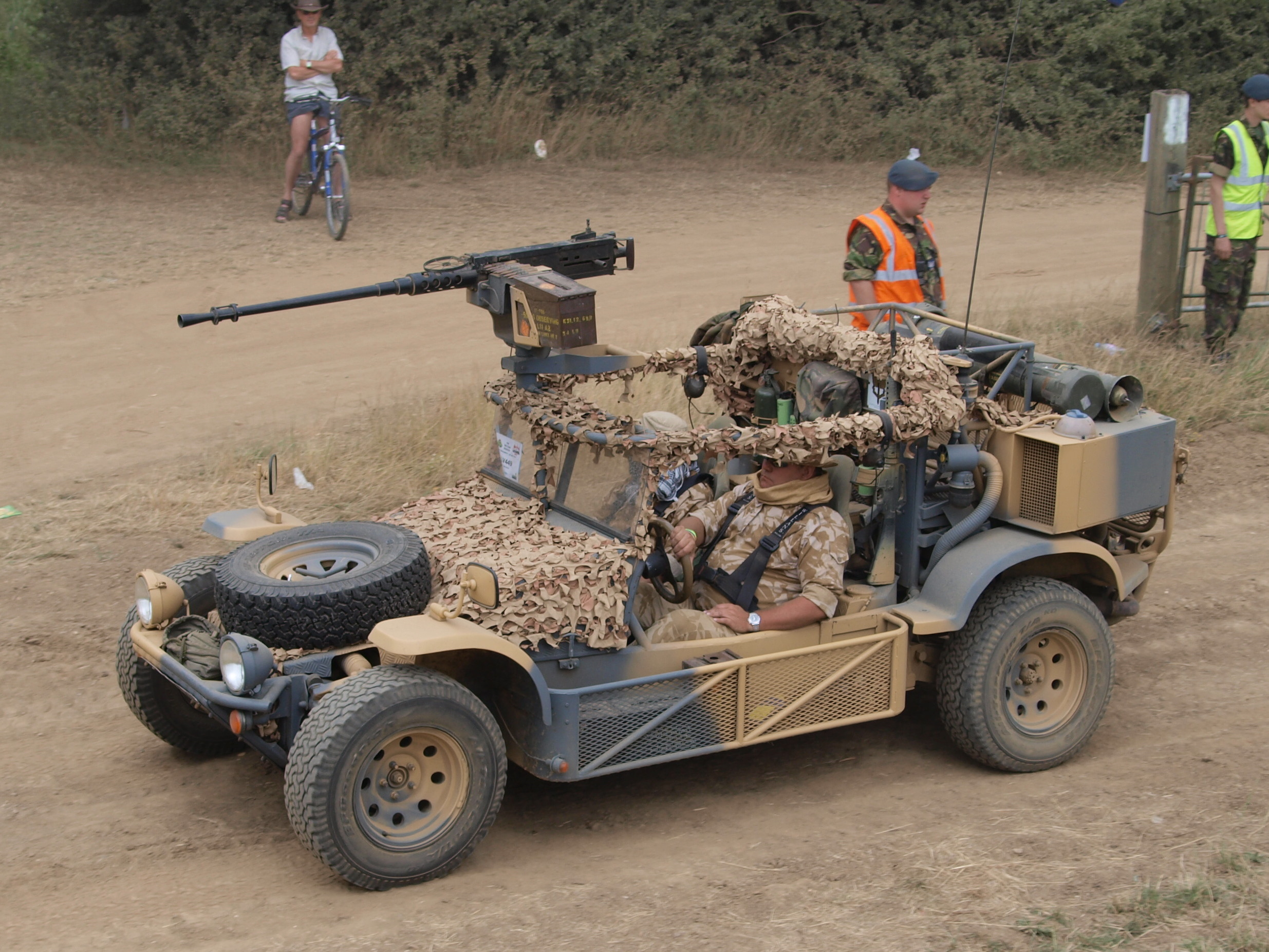 LSV Light Strike (1992) owned by Nick Clifton